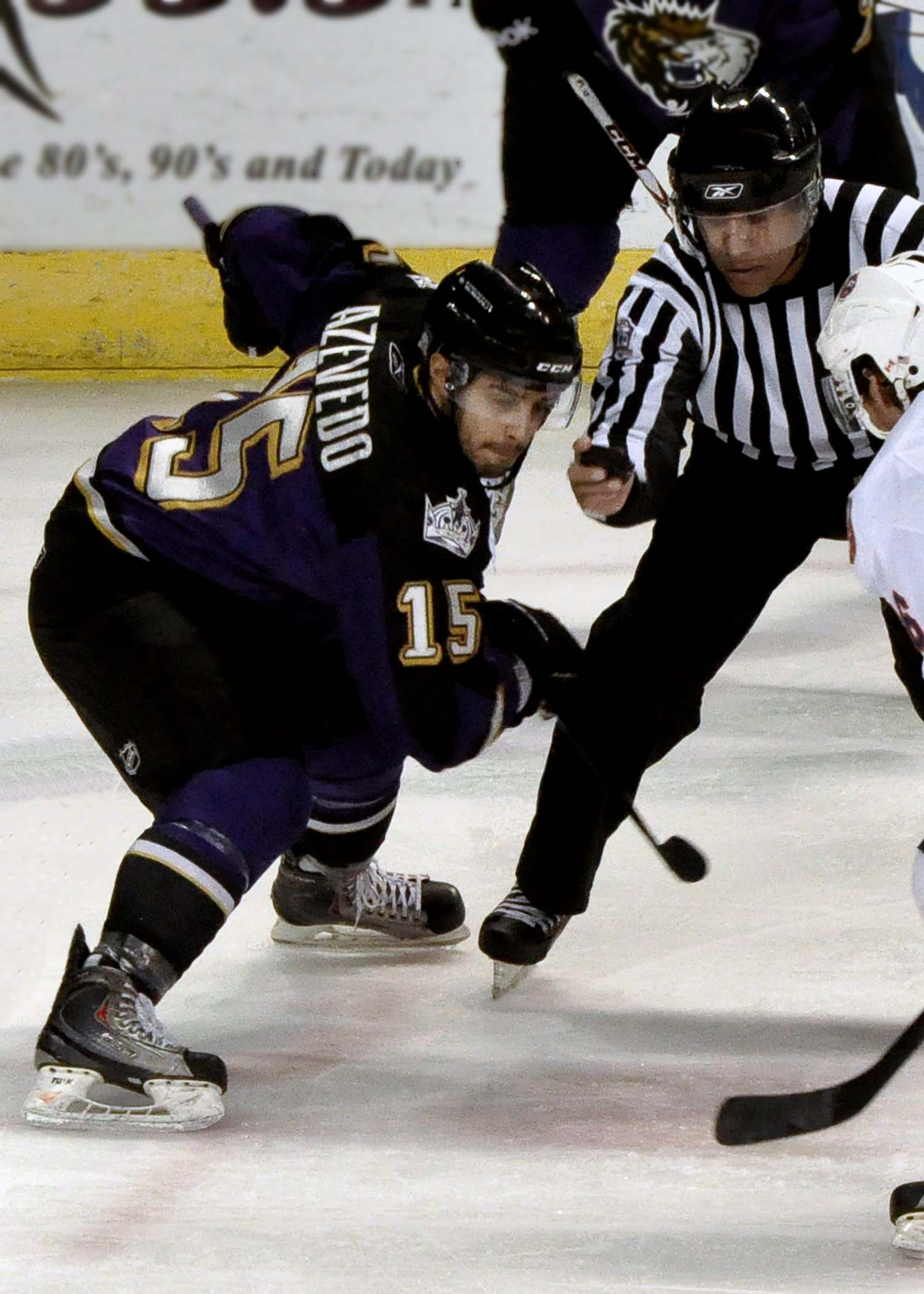 Justin Azevedo (#15)center for AHL Manchester Monarchs at a game at the Arena at Harbor Yard in Bridgeport, Connecticut on February 20, 2011 against the Manchester Monarchs. The Monarchs are the affiliate of the Los Angeles Kings.